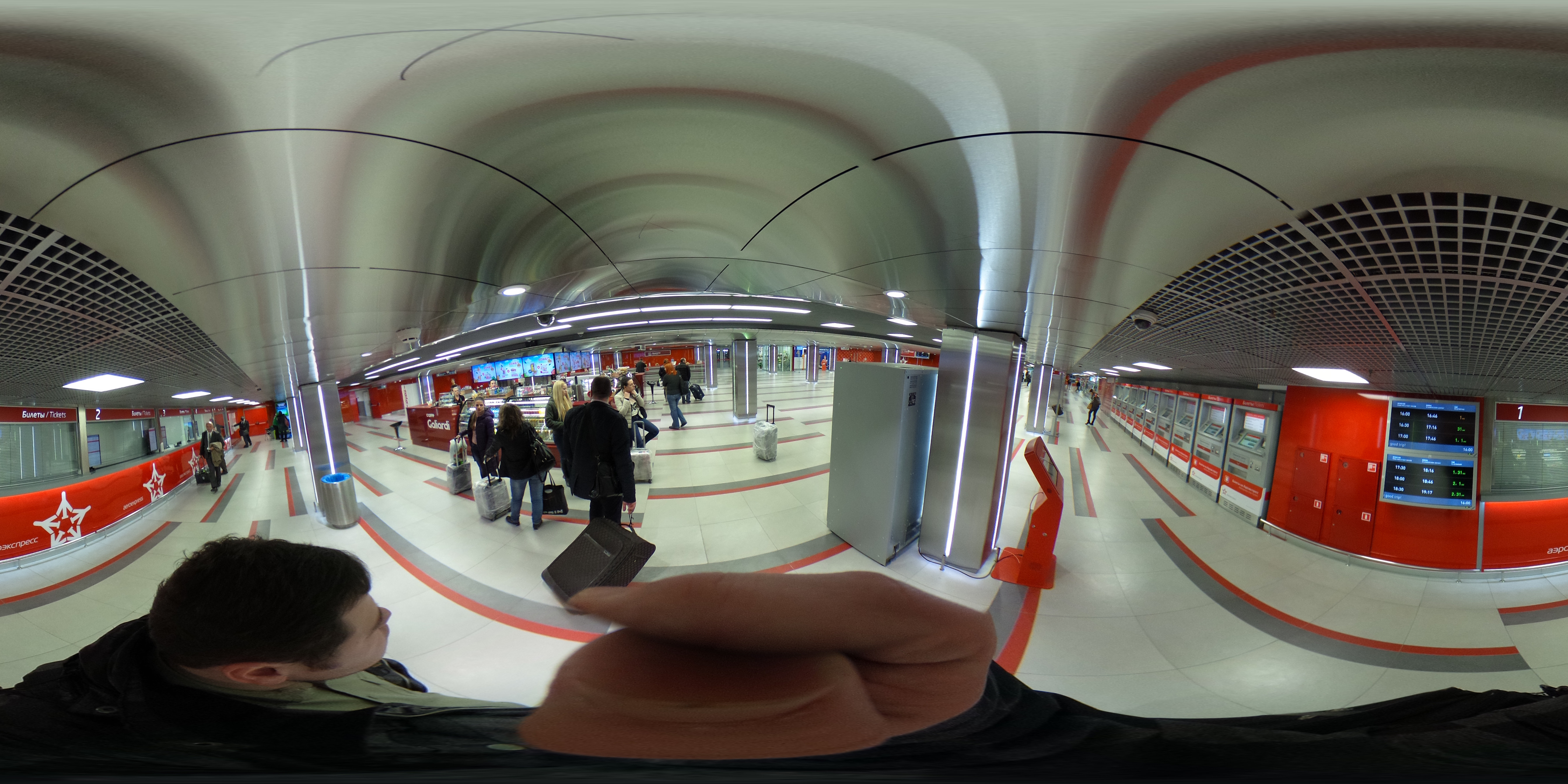 Moscow Paveletskiy rail terminal. Aeroexpress hall after rebuild, opened at 10.12.2015